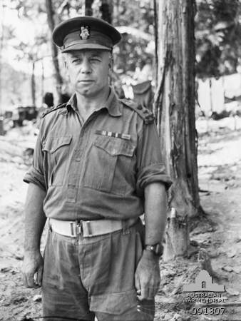 Bougainville. 1945-04-28. Brigadier J. Field, Commander 7 Infantry Brigade, at Headquarters 7 Infantry Brigade.